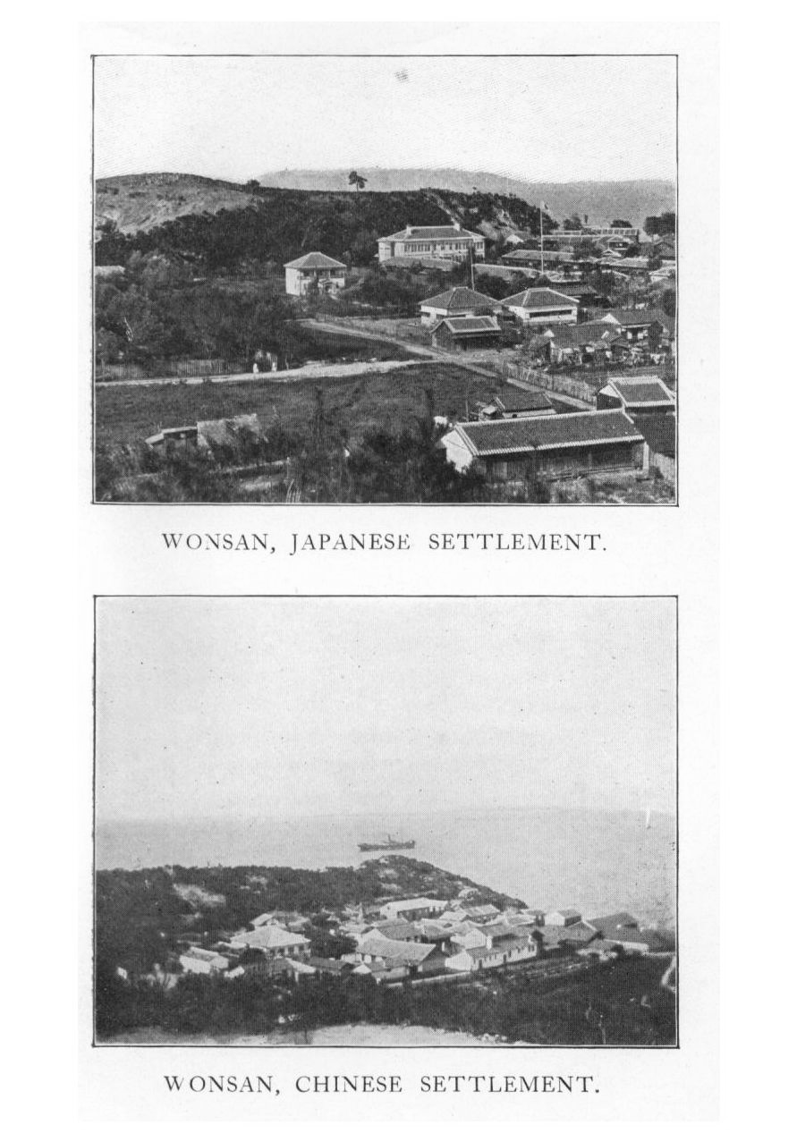 Views of the Japanese and Chinese settlements in Wonsan, Korea, 1898.